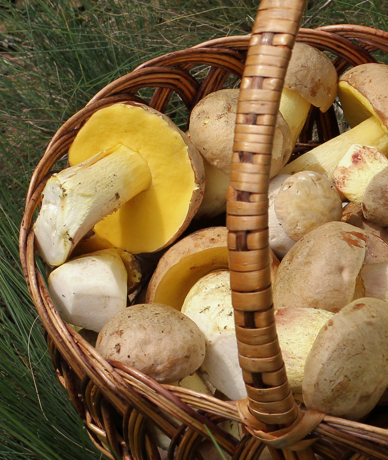 Picked edible fungi in basket. crop with Iodine bolete (Boletus impolitus). Trophies of a mushroom hunt. Ukraine.